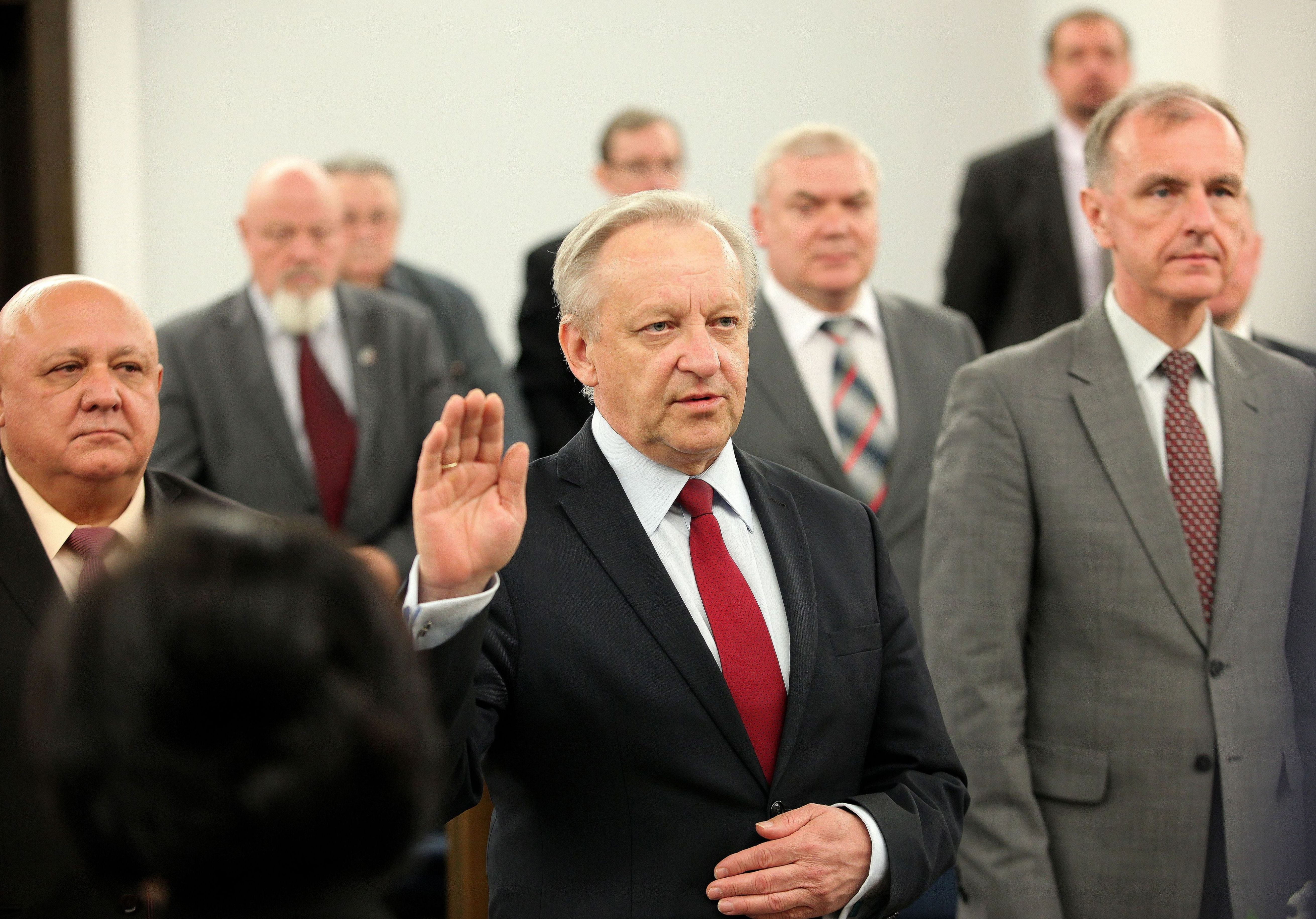 Senator's oath of a newly elected senator Bolesław Piecha on 24 April 2013 in the Polish Senate